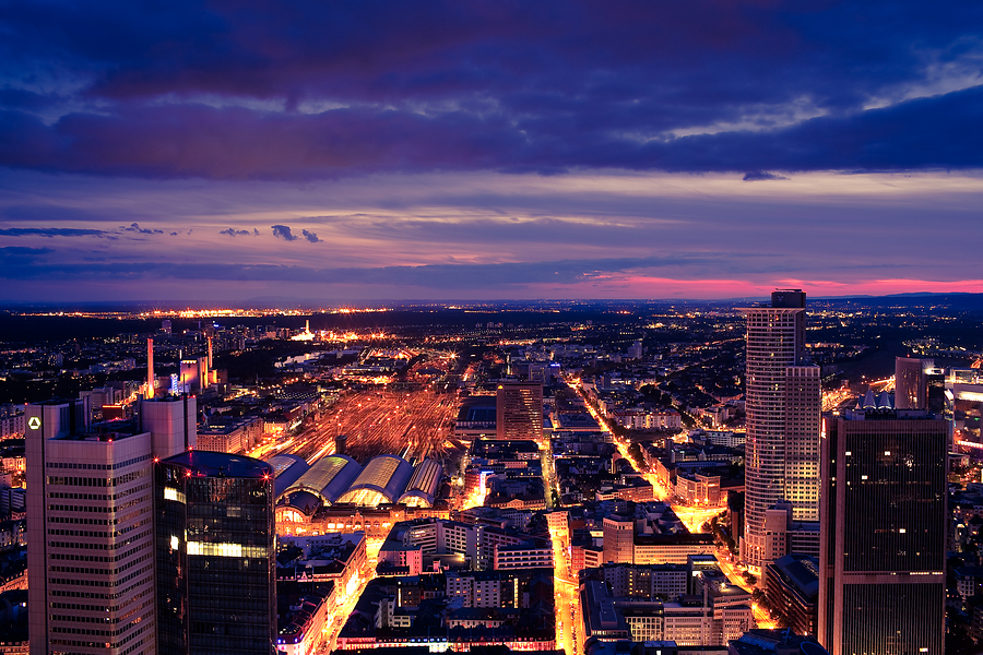 view from Main Tower, Frankfurt, Germany, looking west towards Frankfurt Central station at night